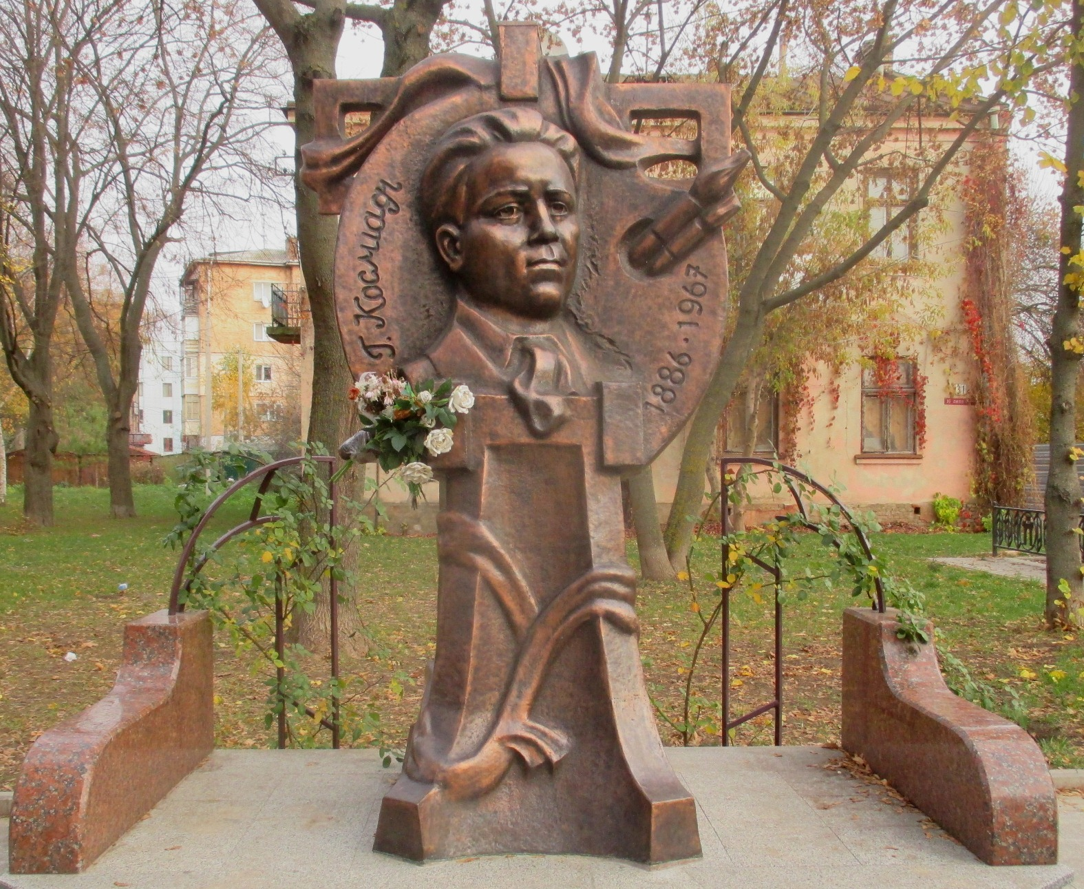 Commemorative sign of Georgi Cosmiadi